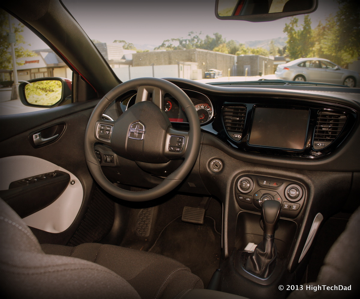 Photos from a 7 day test drive of the 2013 Dodge Dart Rallye. The full review can be found at